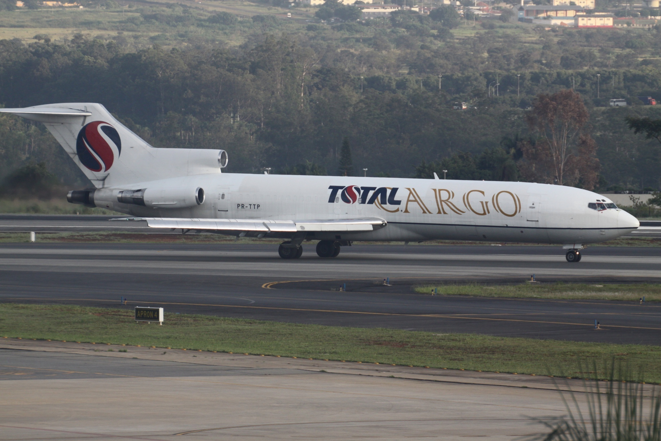 At Brasilia